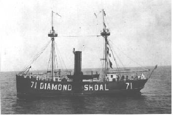 United States Lighthouse Service light ship LV-71, circa 1910.